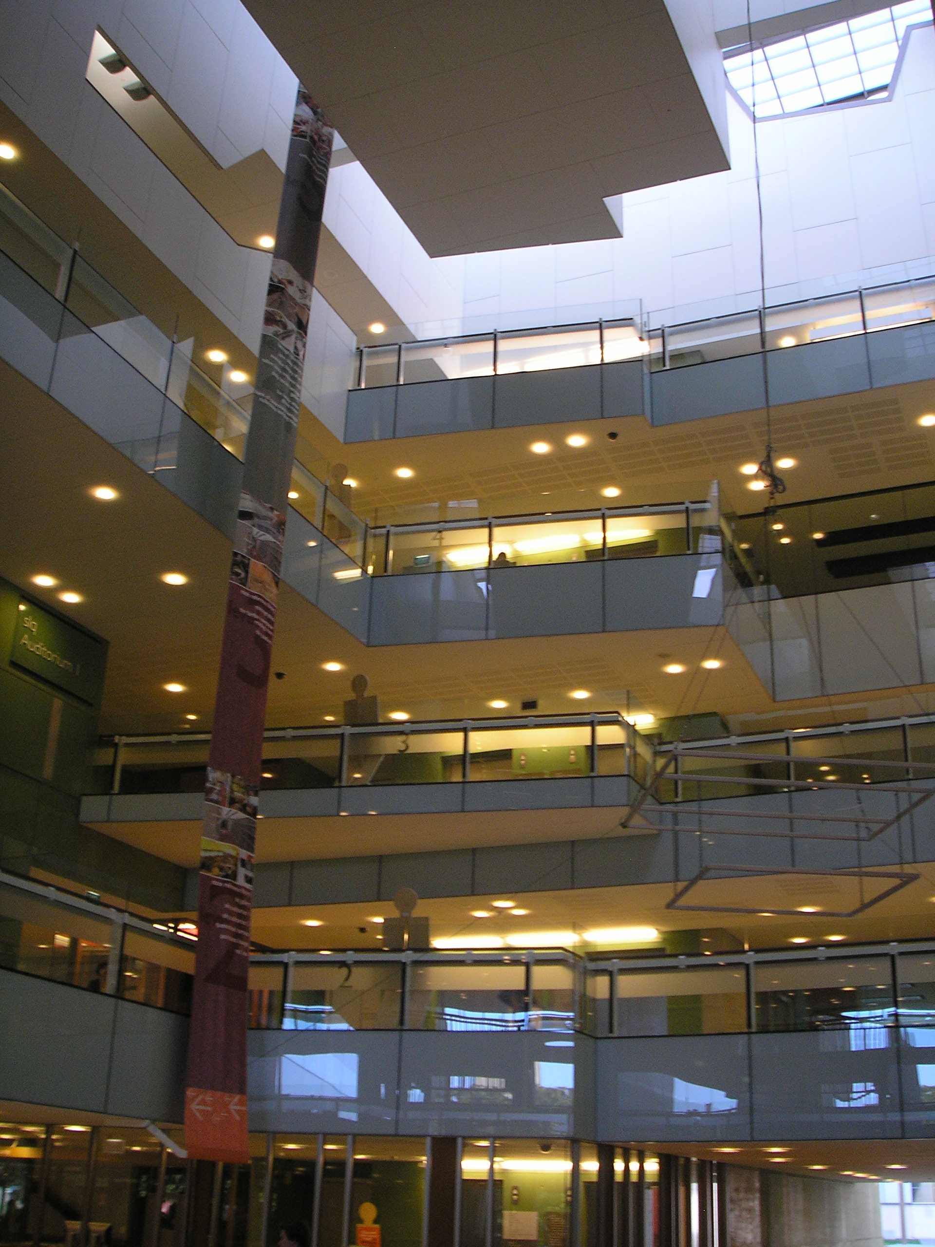 Part of the interior of the State Library of Queensland